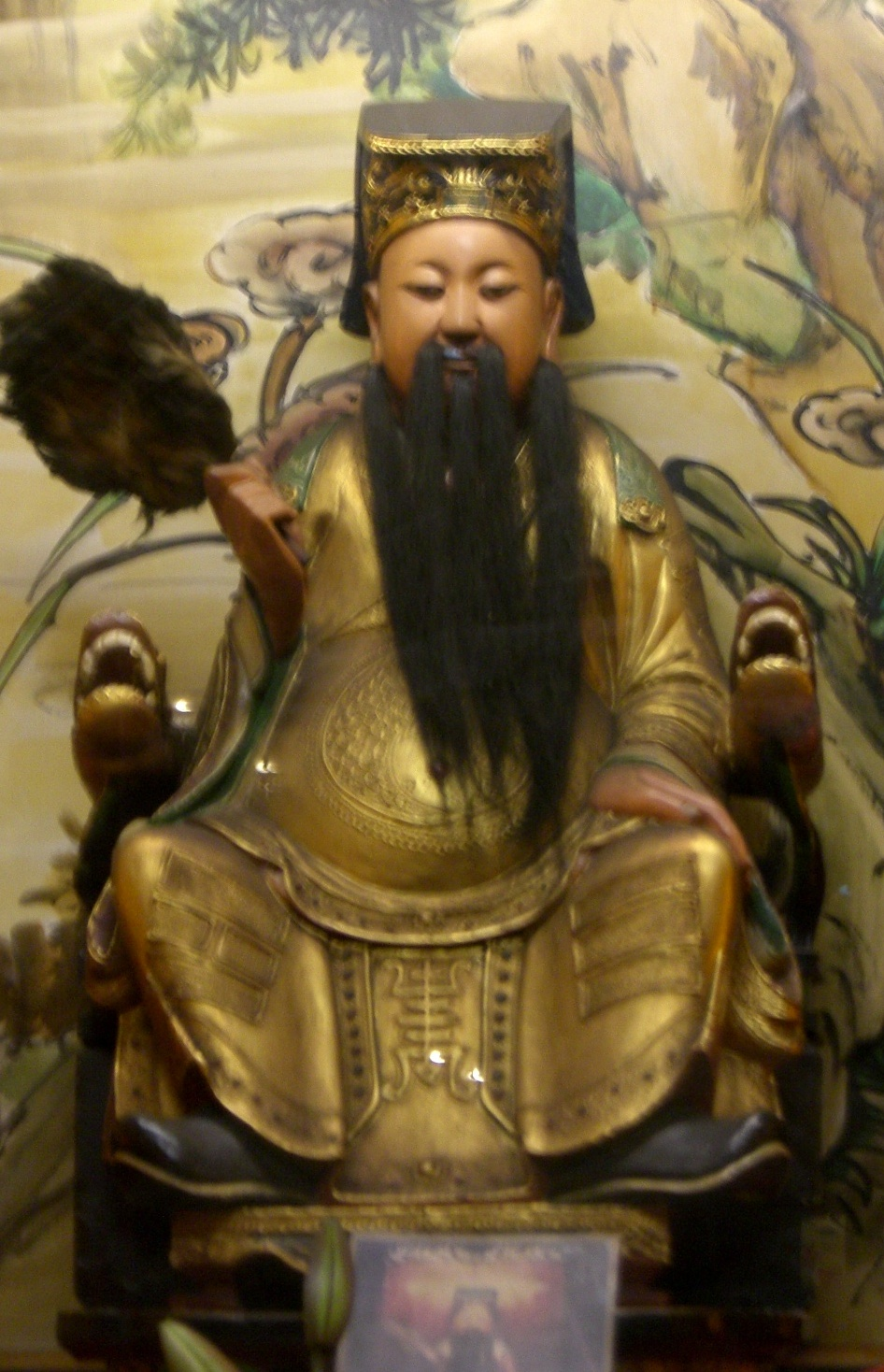 Statue of Hua Tuo (chinese doctor) at Longshan temple in Taiwan.